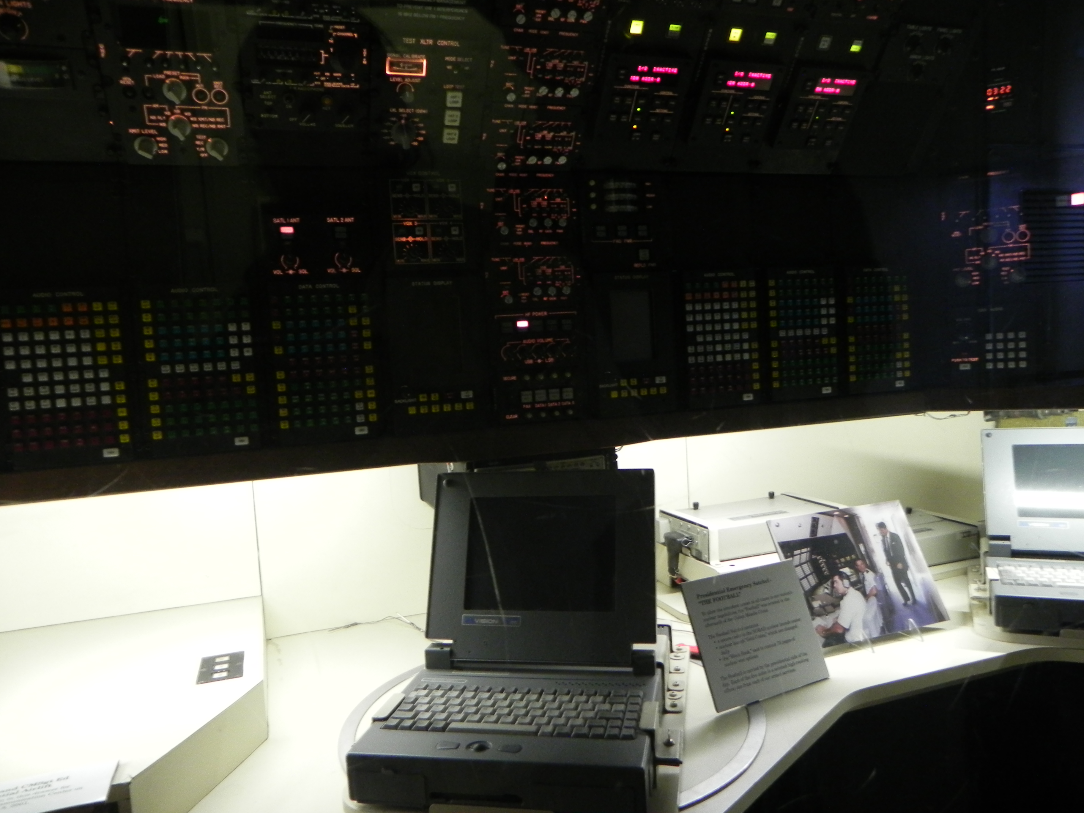 Backstage Pass at the Ronald Reagan Presidential Library